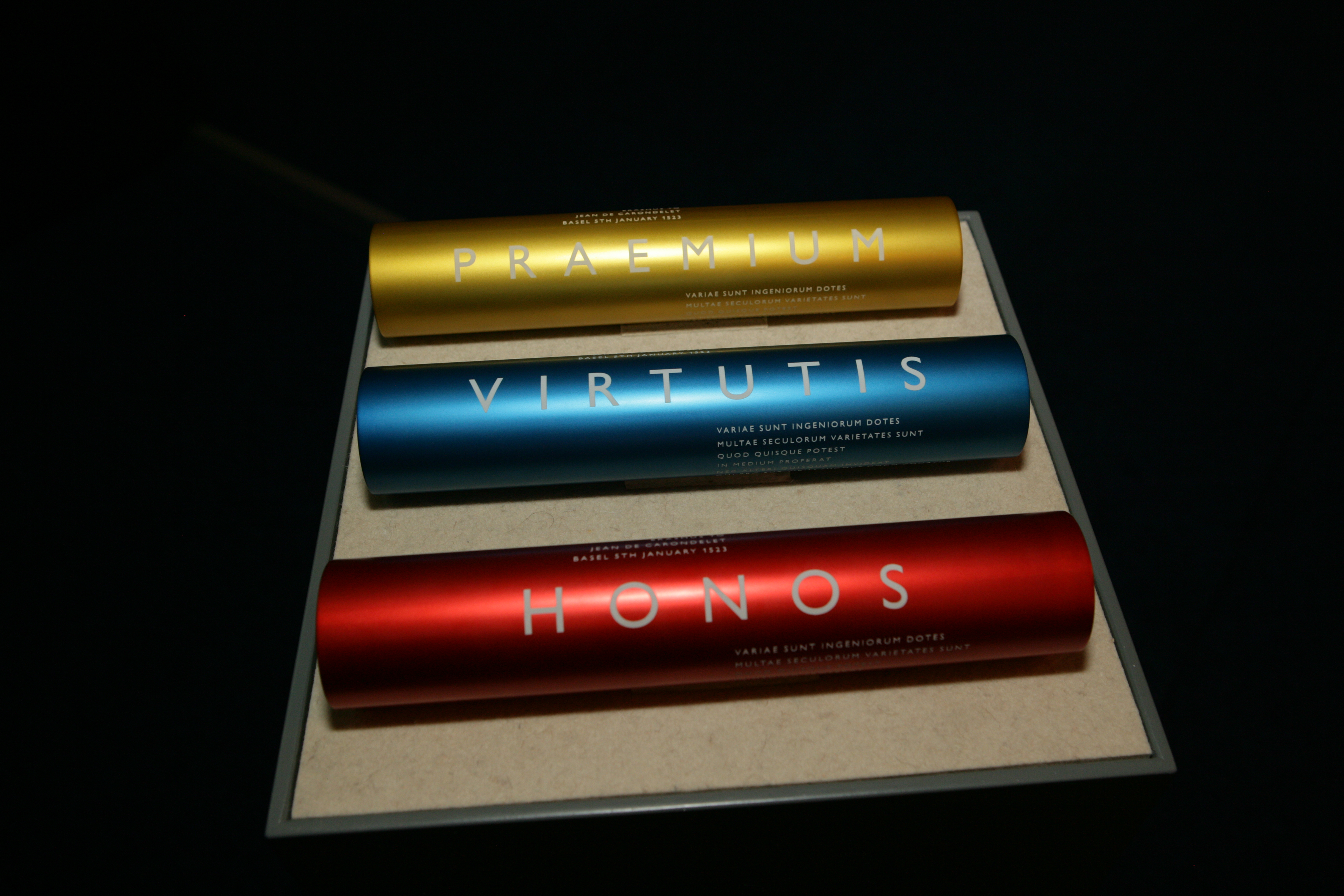 Erasmus Prize 2015, awarded to the Wikipedia community by Stichting Praemium Erasmianum on 25 November 2015